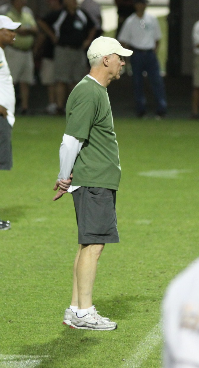 Green Bay Packers General manager Ted Thompson during preseason training camp, Ray Nitschke Field, Green Bay Wisconsin, August 5, 2011